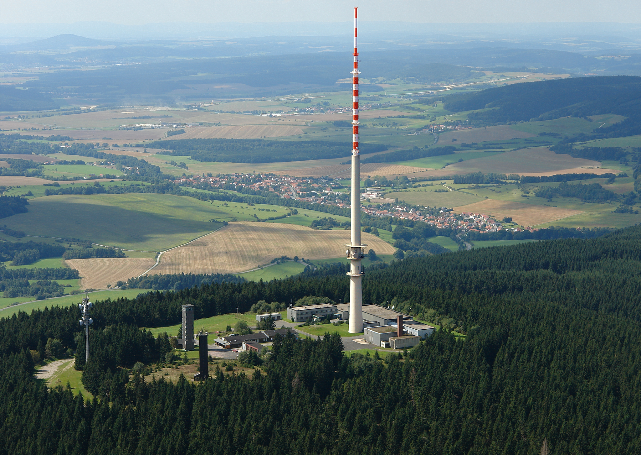 Transmitter "Bleßberg" with observation tower and walking home